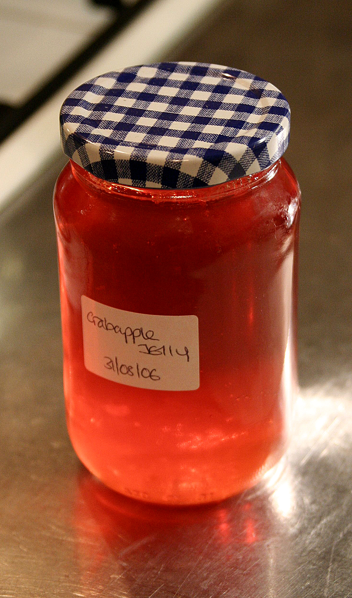 Duly cleaned, capped and labelled. There was another batch today. It'll be apple chutney time soon :-)